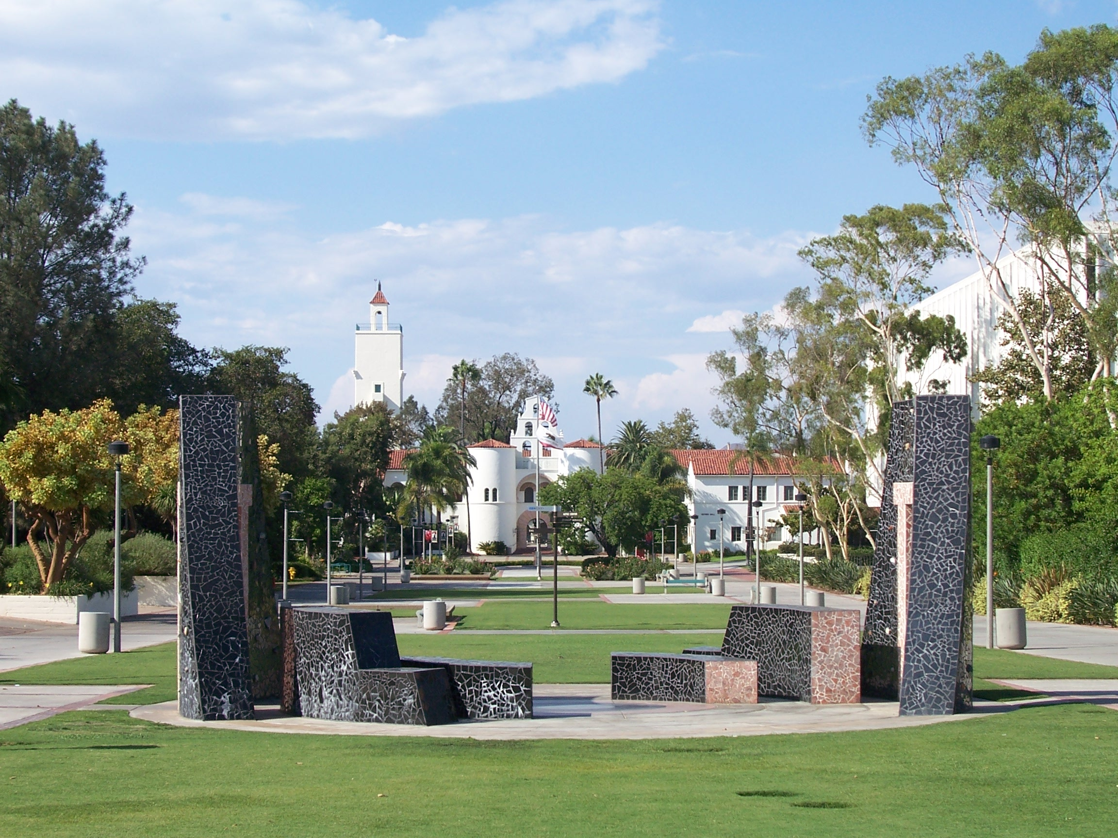 Campanile Mall at San Diego State University looking towards Hepner Hall. Picture taken on September 4, en:2006 by User:Nehrams2020